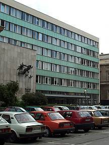 Photo of Pollack Mihaly ter 5